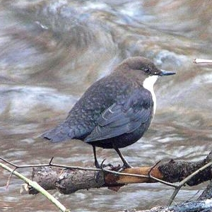 White-throated Dipper also known as the European Dipper (Cinclus cinclus gularis) in Scotland.